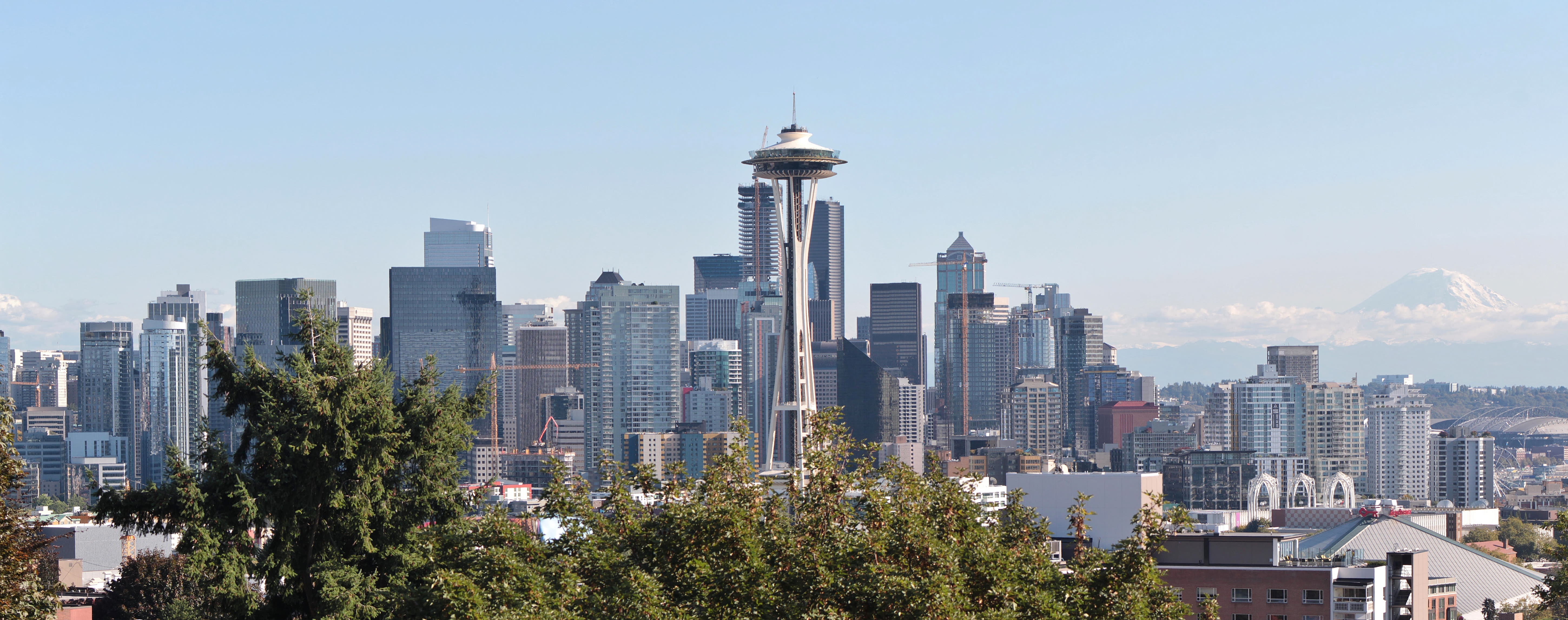 The skyline of Seattle, Washington, United States, viewed from Kerry Park on Queen Anne Hill.